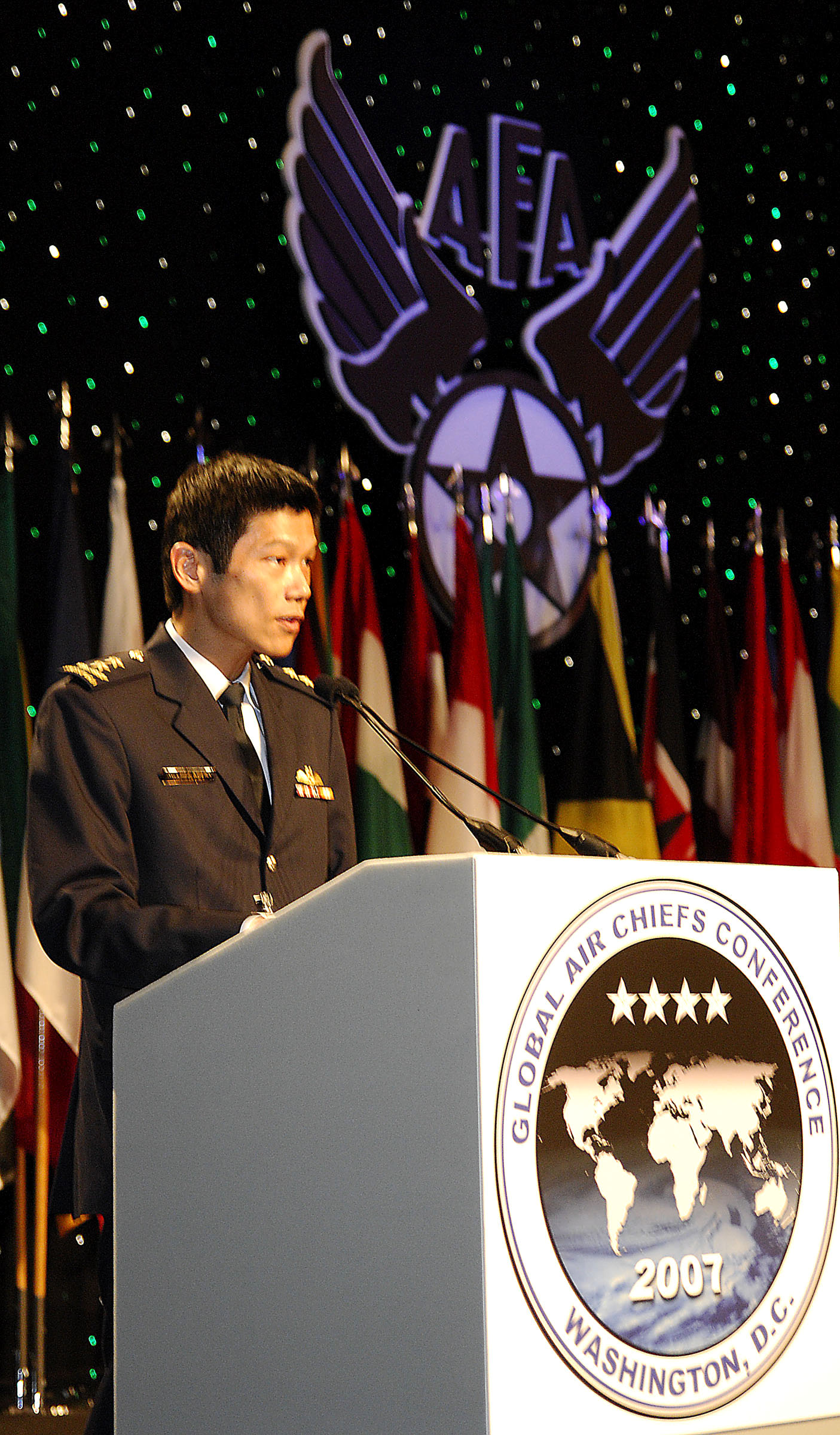 Maj. Gen. Ng Chee Khern addresses more than 90 international air chiefs during the Global Air Chiefs Conference forum Sept. 25 in Washington. Three forums are being held to discuss air power issues across the globe. Hosted by Gen. T. Michael Moseley, the conference runs concurrently with the Air Force Association's Air & Space Conference and Technology Exposition. General Ng is the Republic of Singapore air force chief. General Mosley is the U.S. Air Force chief of staff. (U.S. Air Force photo/Mike Paussic)